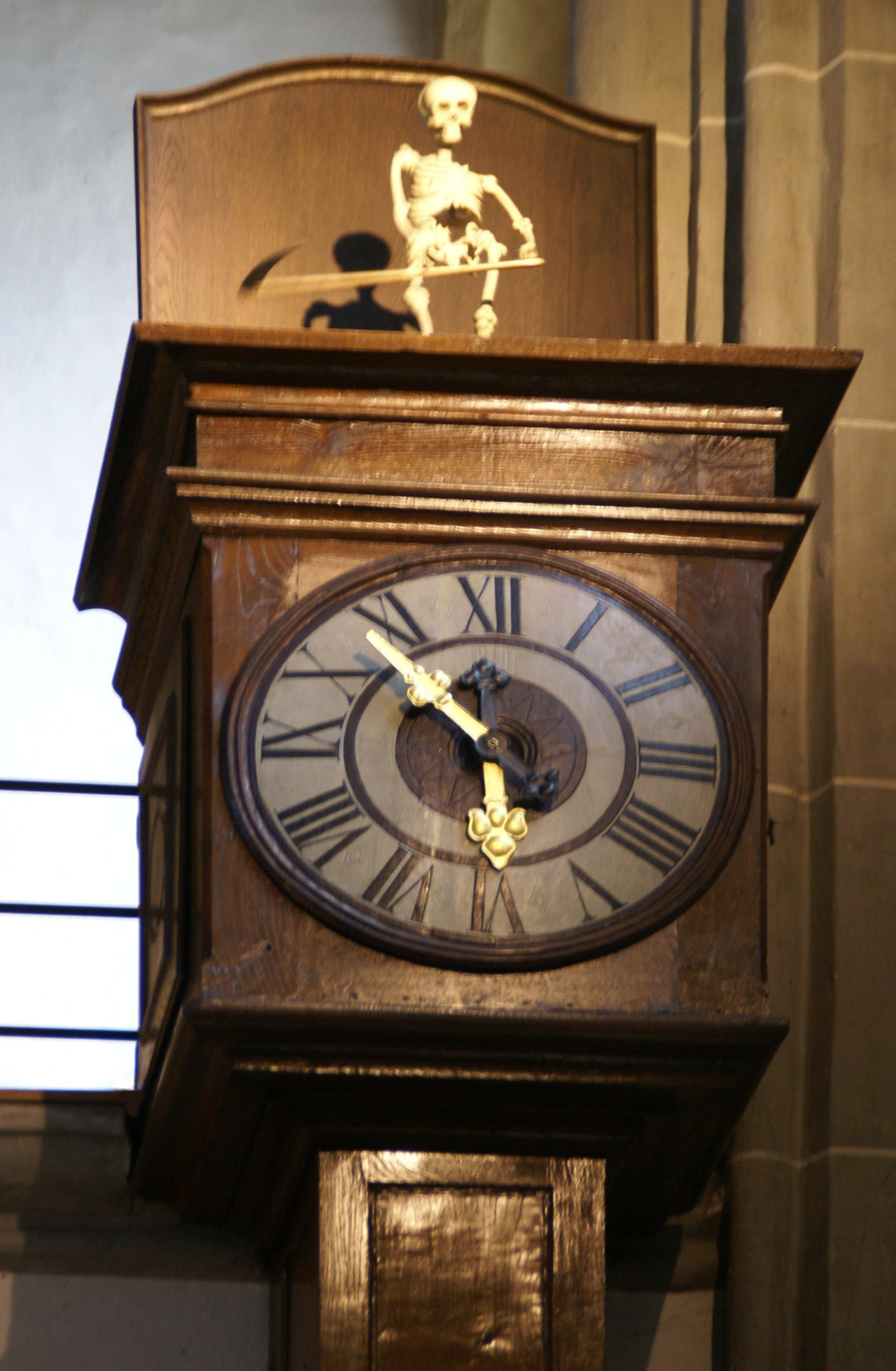 Parish church of St. Philipp und Jakob in Altötting. Clock with figure near the main entrance. The figure makes mowing movements in the rhythm of the clock